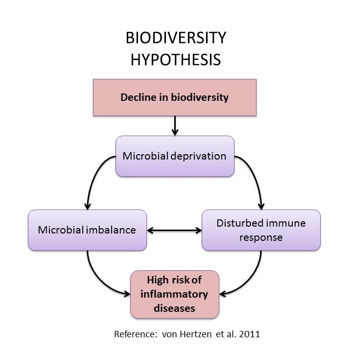 Biodiversity hypothesis chart